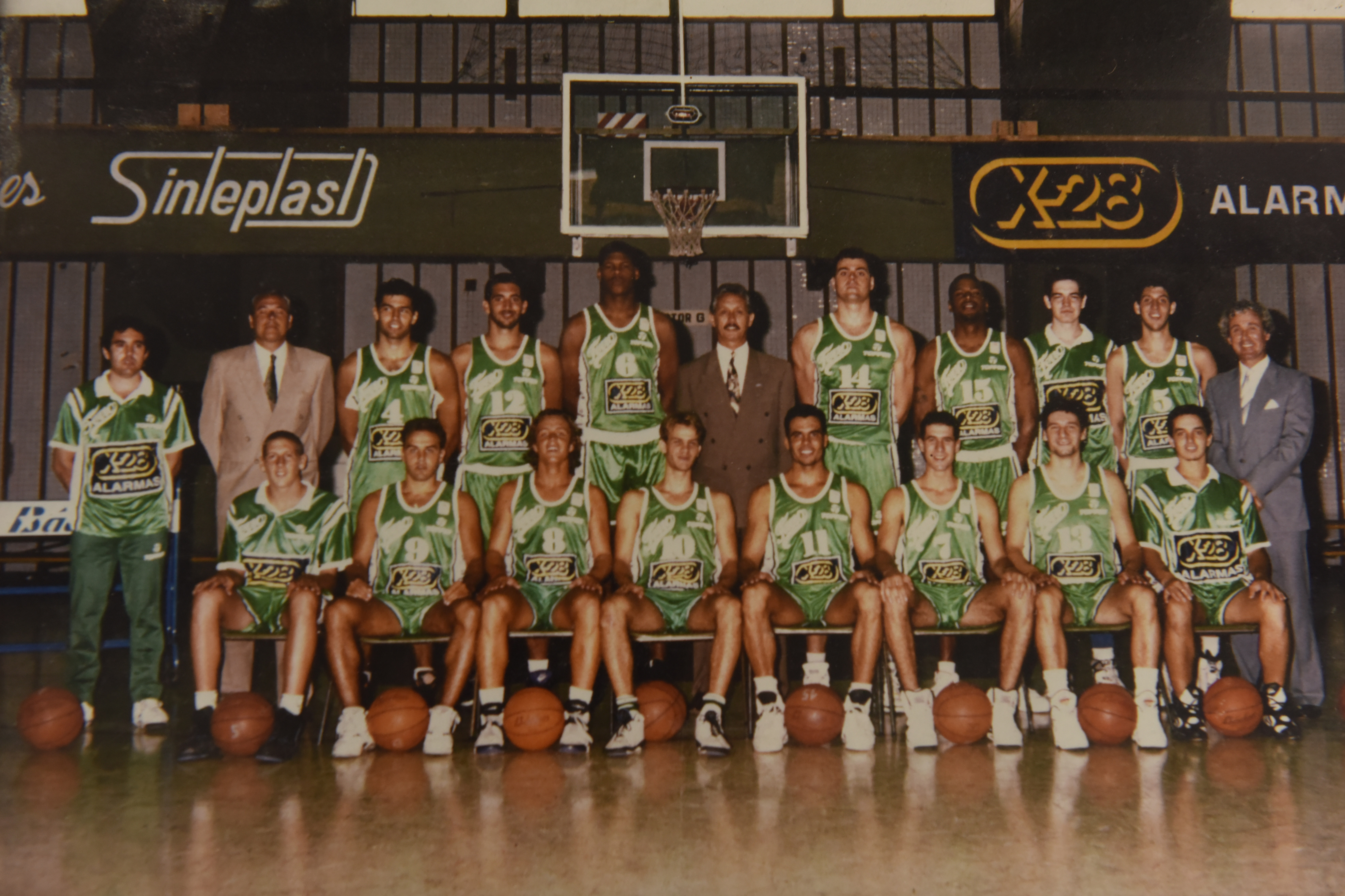 Lucio Schiavi